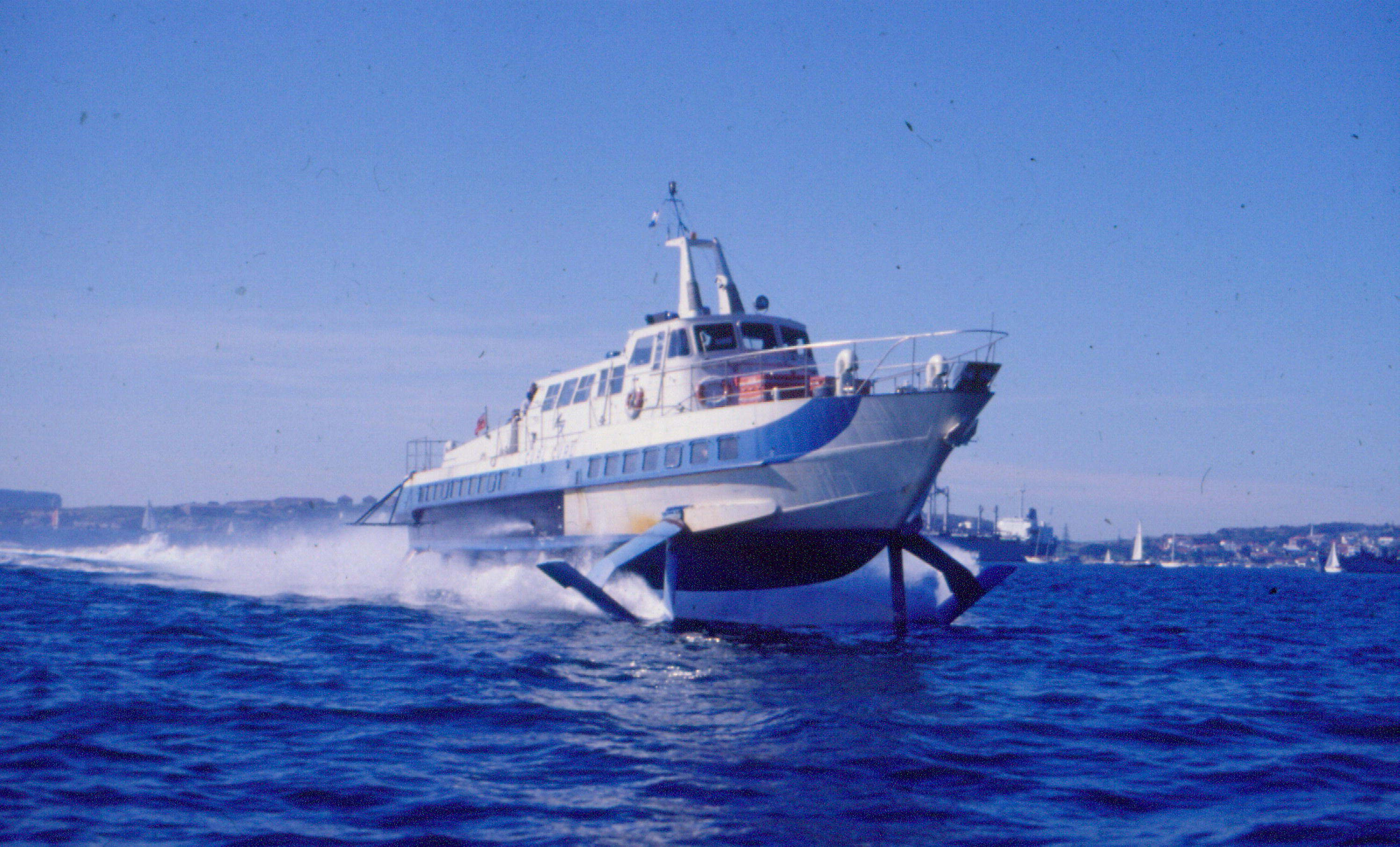 Sydney hydrofoil ferry en route from Manly to Circular Quay 1979. Graeme Andrews, Hydrofoil ferry CURL CURL. (01/01/1979 - 31/12/1979), [A-00081789]. City of Sydney Archives, accessed 02 Jun 2020